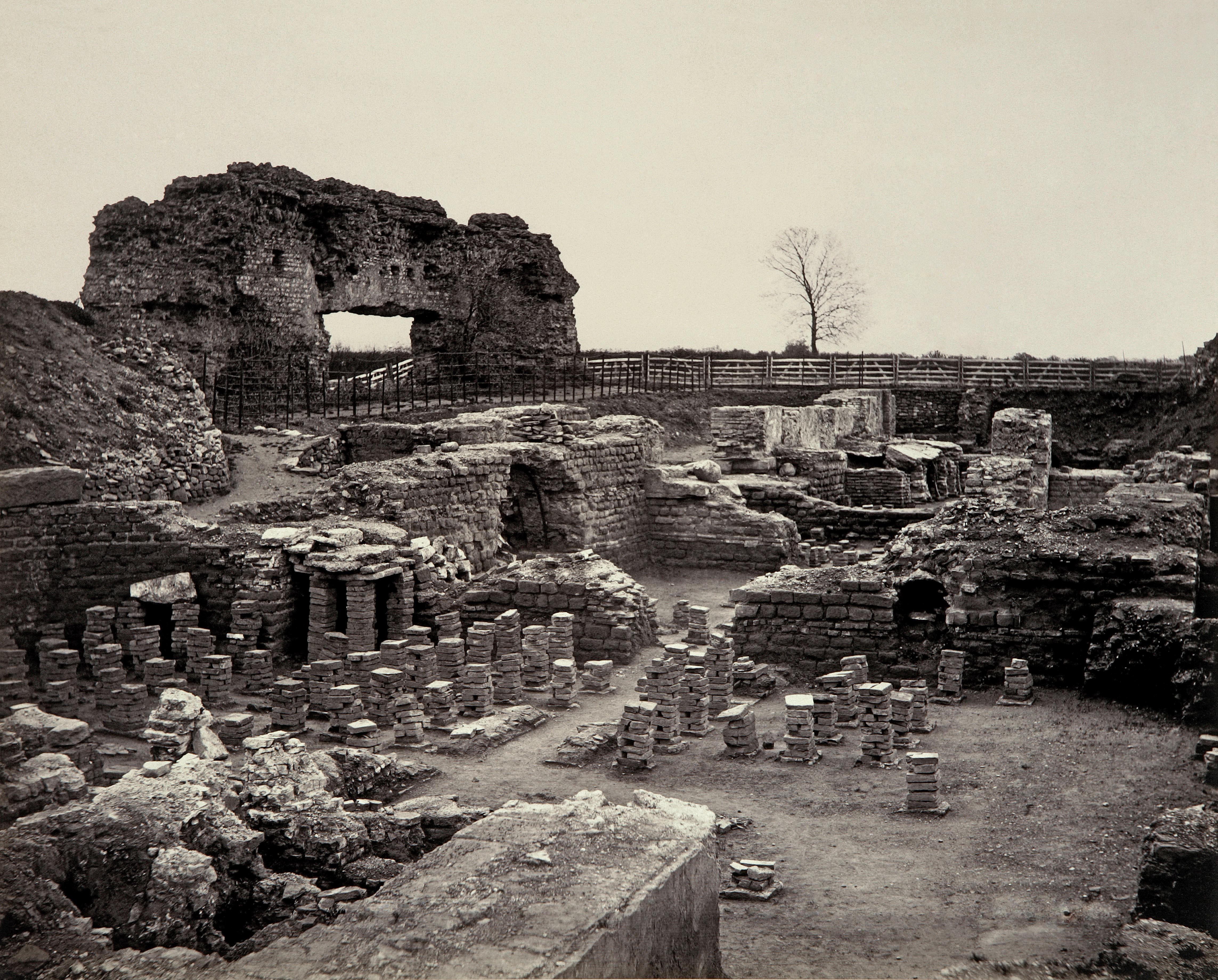 Excavation at Uriconium by Francis Bedford